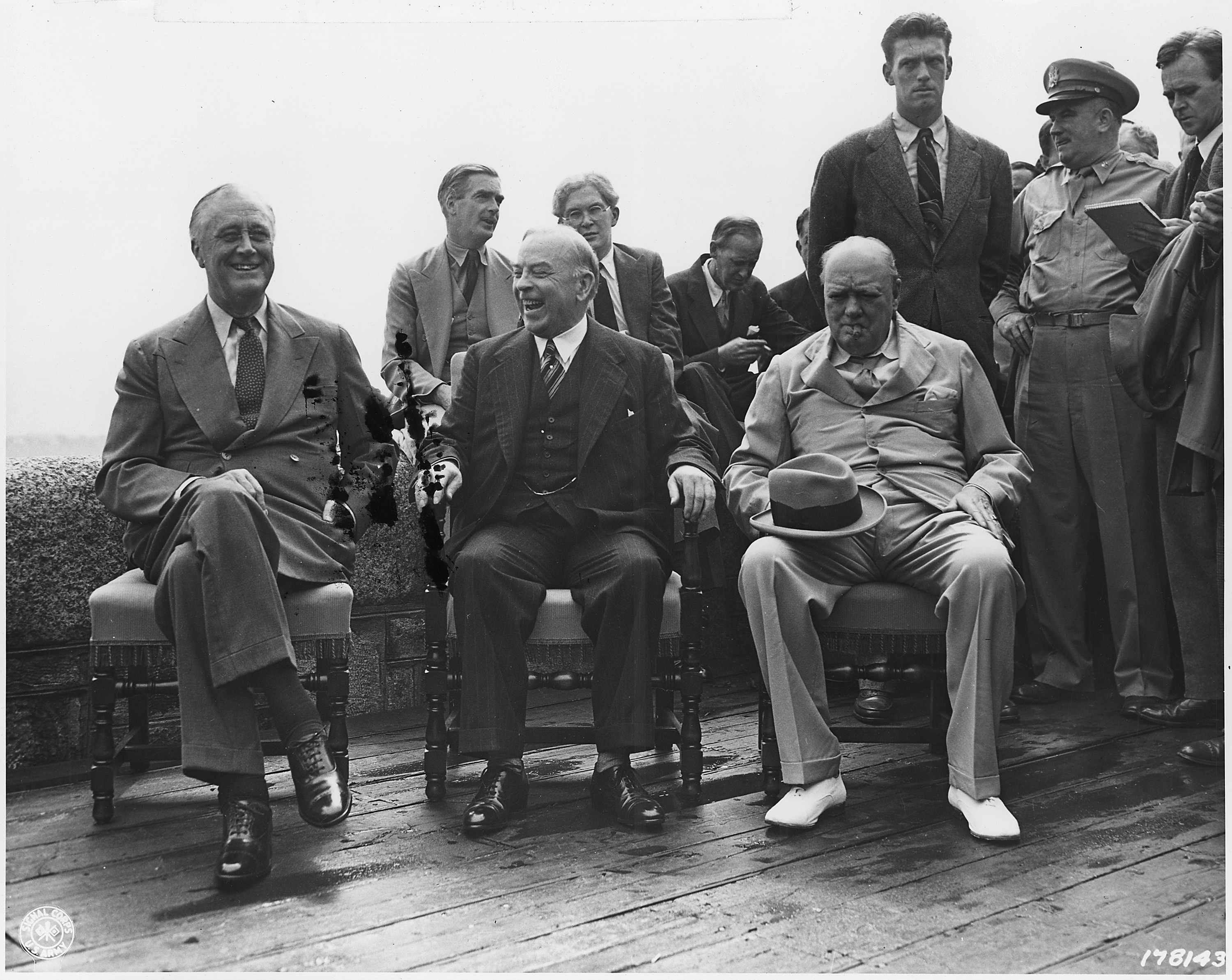 Scope and content: Allice Conference, Quebec, Canada..... Photographed at a Press Conference at the Citadel. President Roosevelt; Canadian Prime Minister, Mackenzie King and British Prime Minister, Winston Churchill. On the wall seated is Anthony Eden, Secretary of Foreign Affairs of Britain; Mr. Brendan Bracken, Britains Minister of Information and Harry Hopkins, Advisor to the President of the United States. 08/24/43.